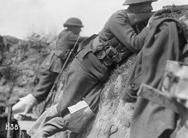 New Zealand troops in the trenches, World War I. Royal New Zealand Returned and Services' Association :New Zealand official negatives, World War 1914-1918. Ref: 1/4-009460-G. Alexander Turnbull Library, Wellington, New Zealand.